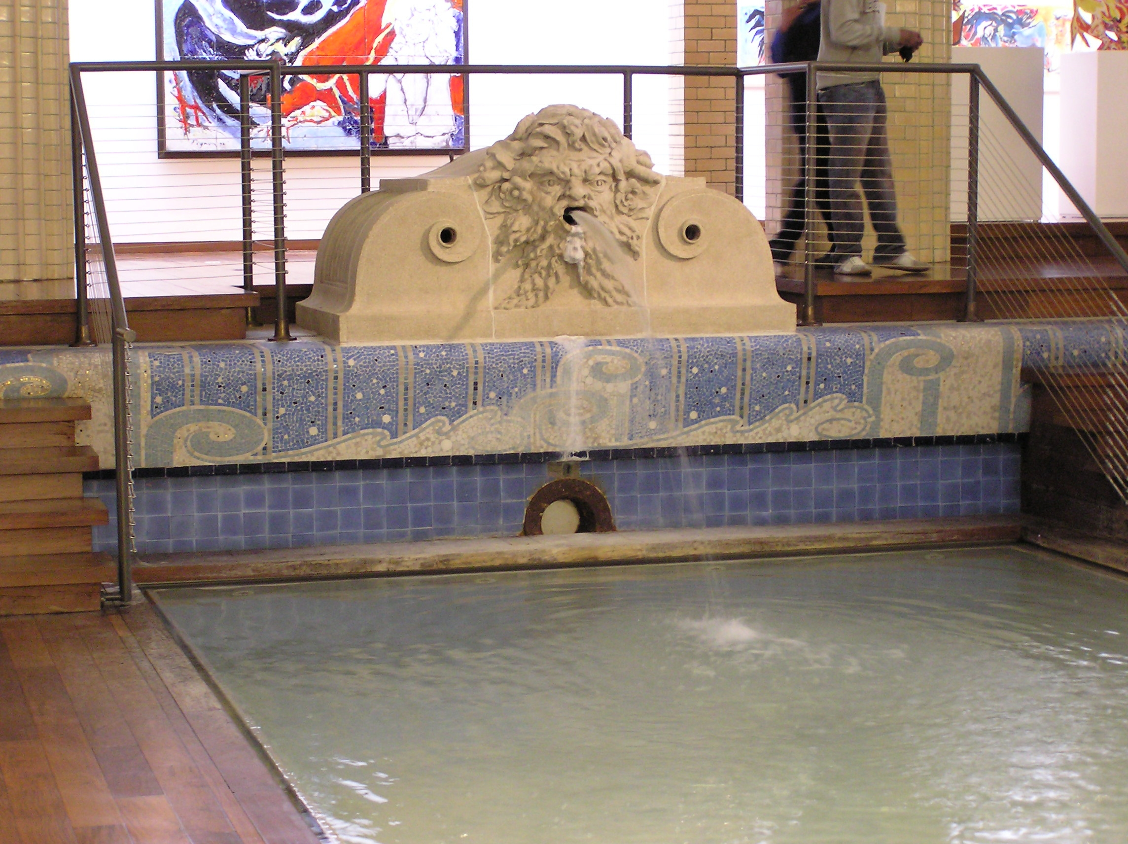 The pool area of the Musée d'art et d'industrie ("La Piscine") in Roubaix, France.